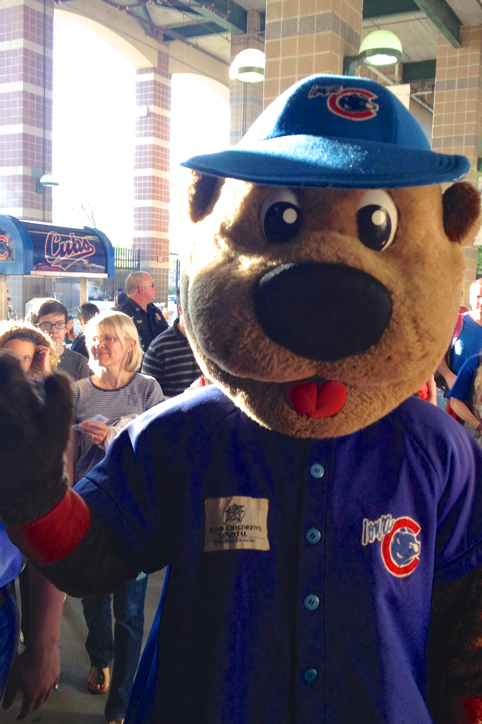 The mascot for the Iowa Cubs, Cubbie Bear